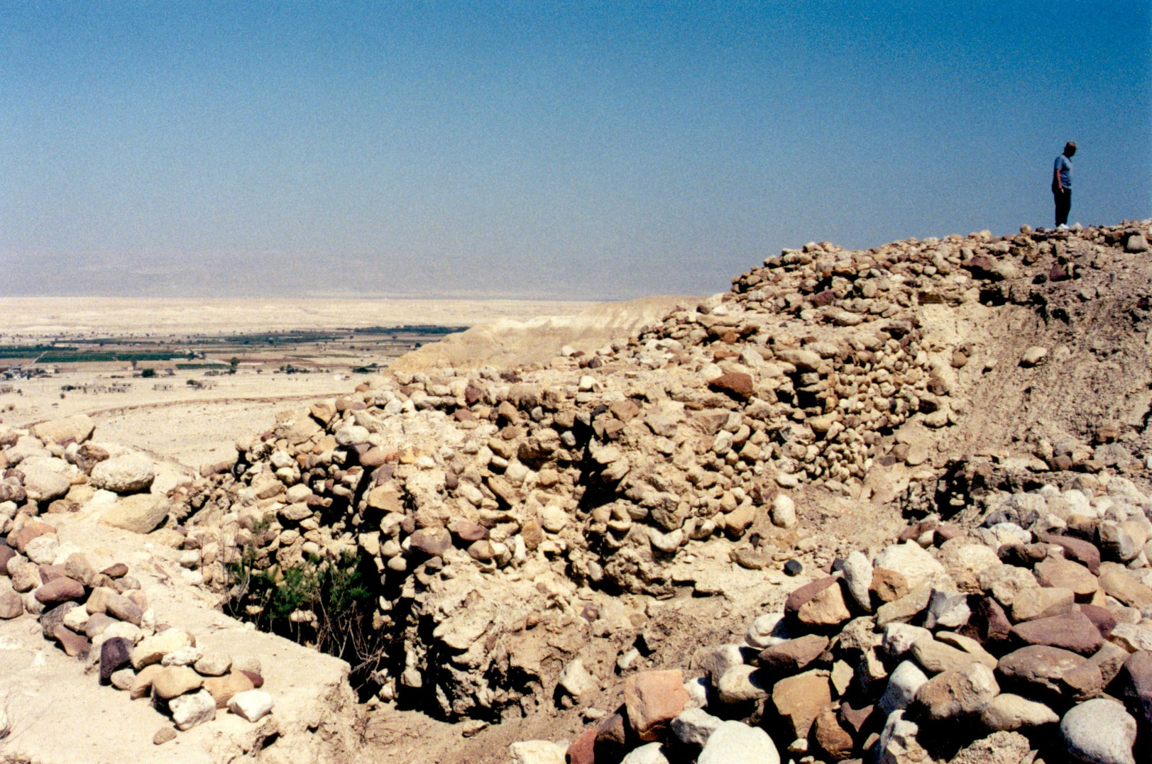 View of west gate at Bab edh-Dhra, looking NW